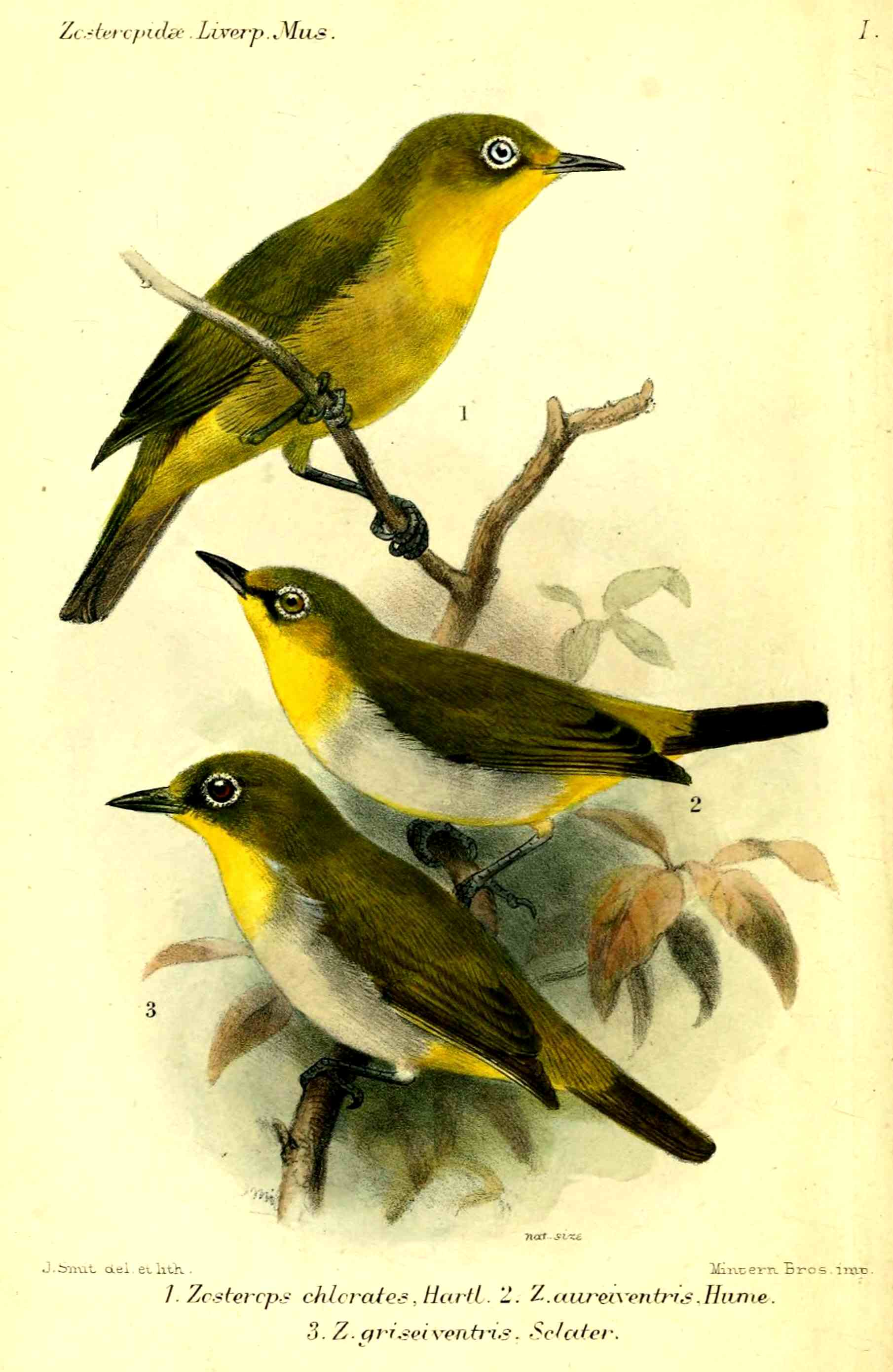 Zosterops chlorates = Zosterops montanus montanus[1] Zosterops aureiventris = Zosterops palpebrosus auriventer[2] Zosterops griseiventris = Zosterops chloris albiventris[3] [4]